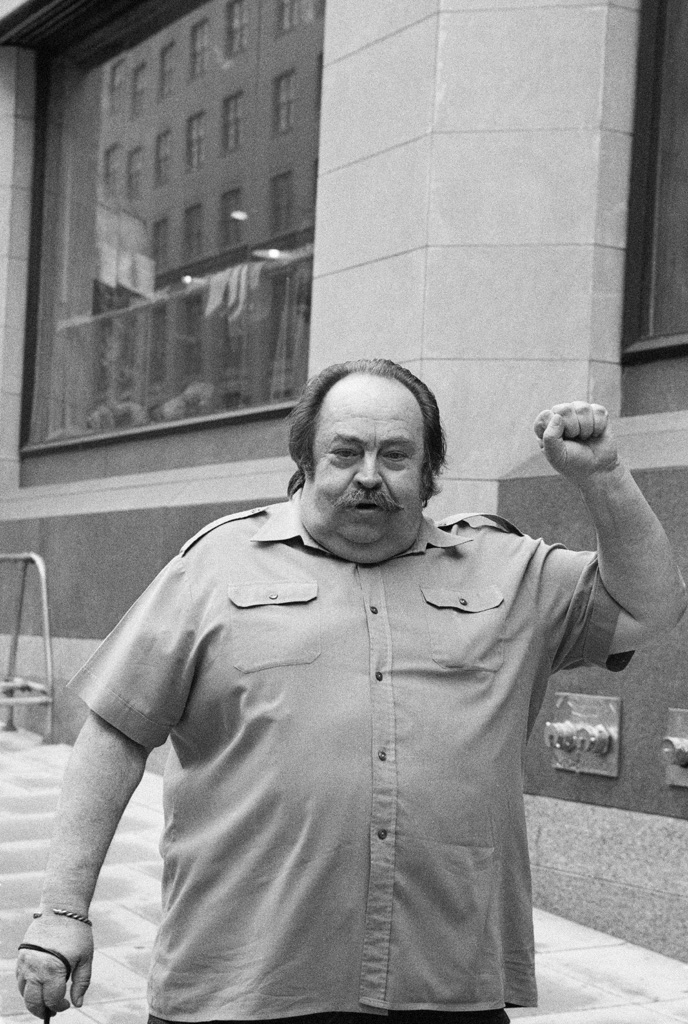 “Alexander Bovin, speechwriter of Soviet General Secretaries”. Journalist, publicist, political scientist, diplomat and speechwriter of Soviet General Secretaries Alexander Bovin (1930-2004).